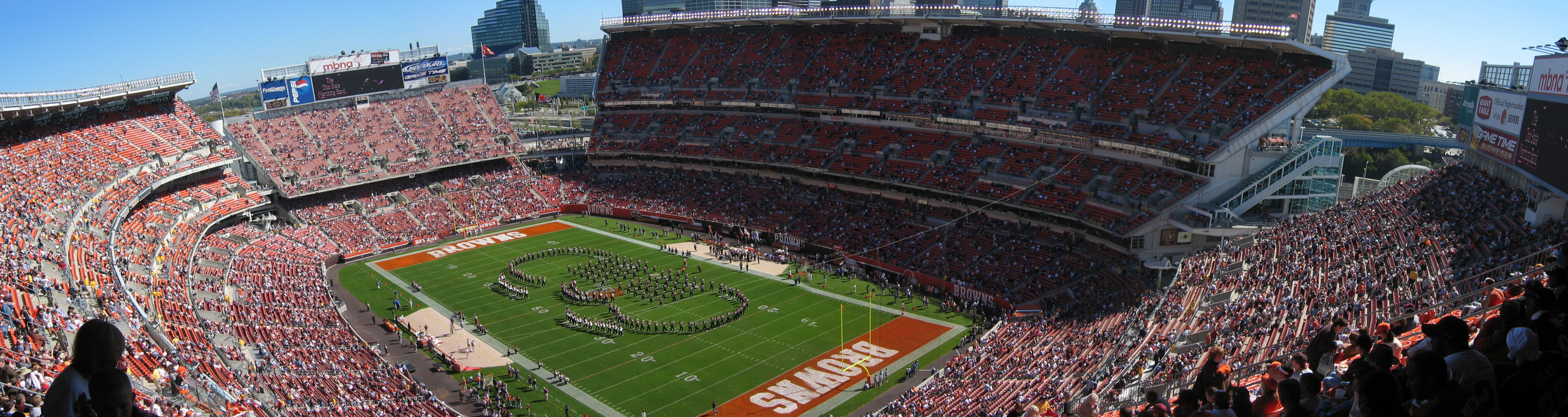 The Cleveland Browns in an July 2006 game in Cleveland Browns Stadium.